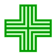 Green Cross (used as a pharmacy symbol)